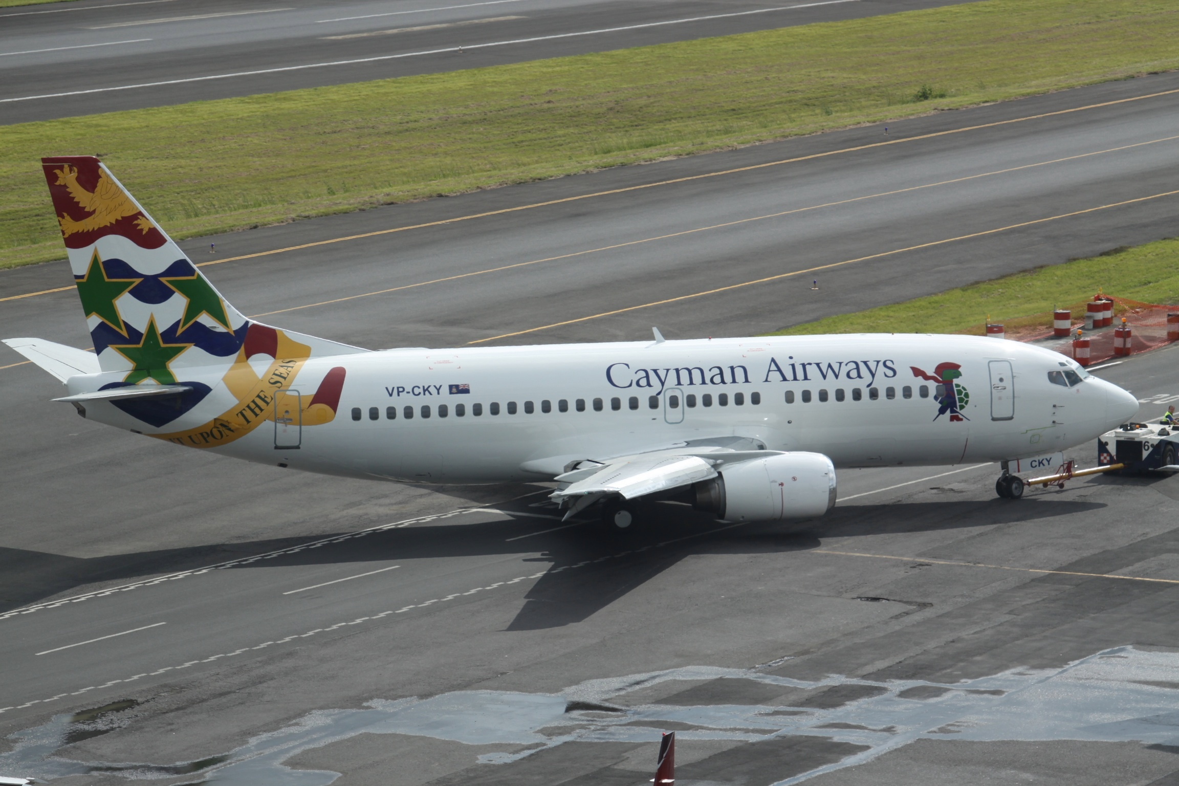 Boeing 737-300 of Cayman Airways at Juan Santamaría International